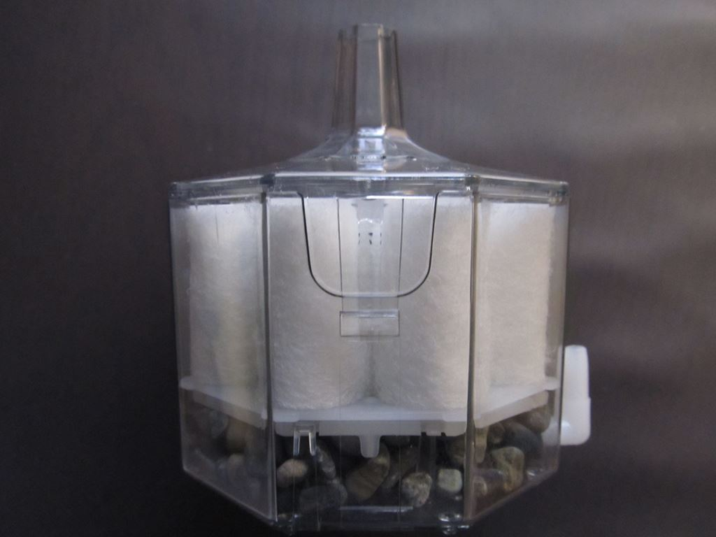 Suisaku airlift filter for aqualium